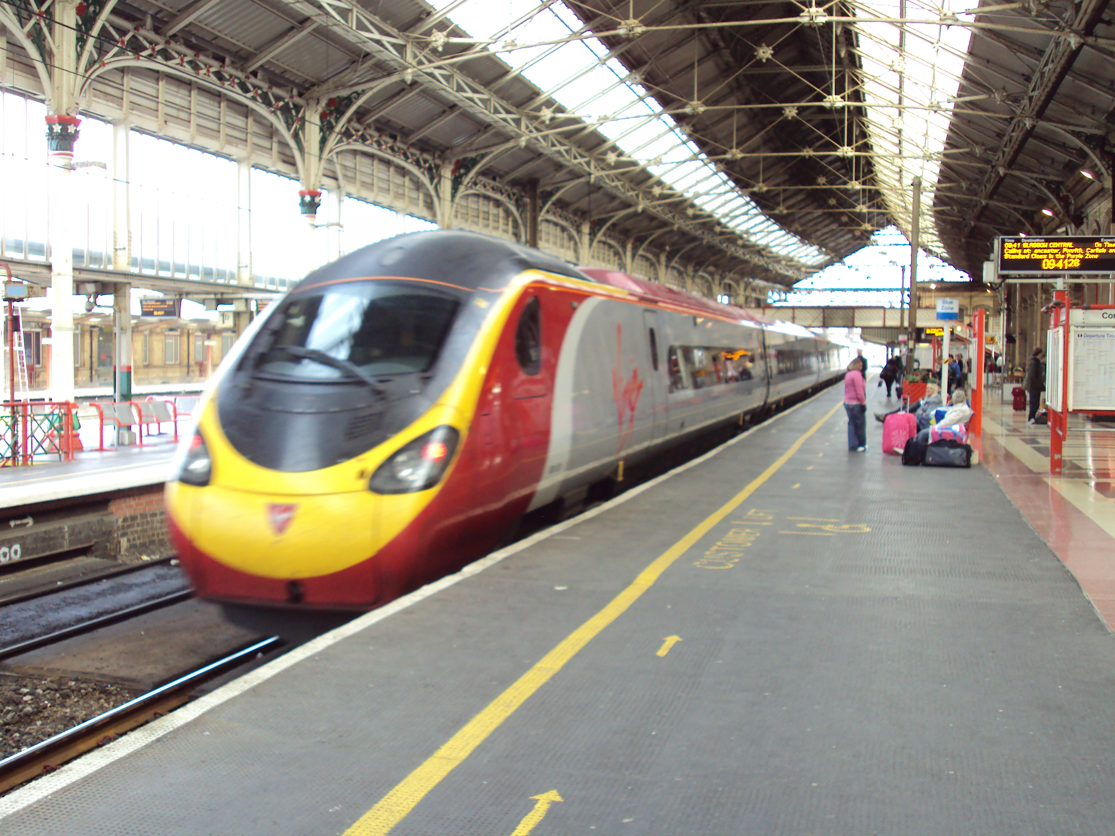 A class 390 Virgin Pendolino train departs Preston railway station, Lancashire, England on a service from London Euston to Glasgow Central.